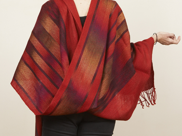 Computer aided design allows Liz to explore many patterns for each threading of the loom. Wrap, 220 x 62 cm, hand-dyed wool warp, fine wool weft